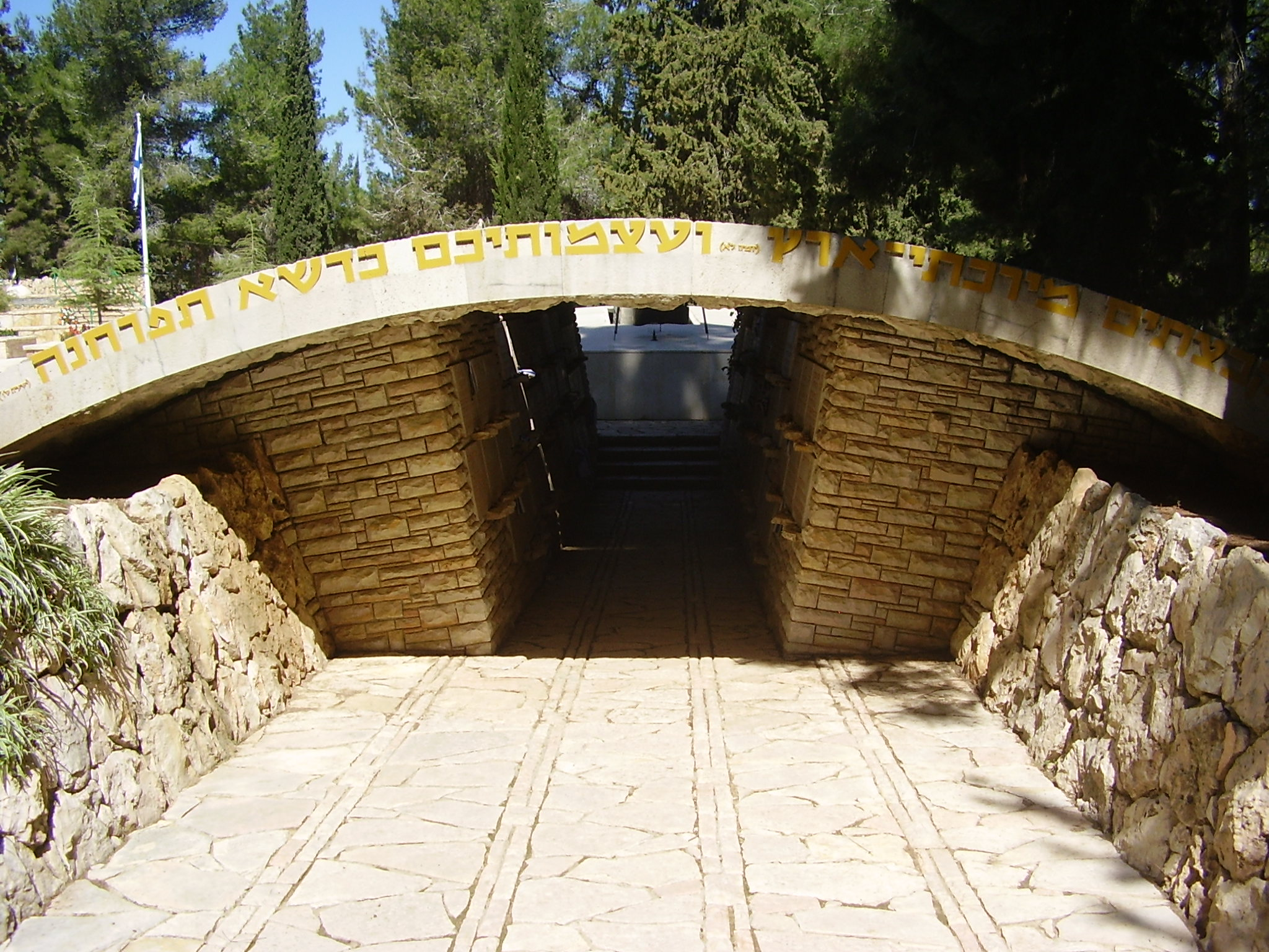 old city memorial in mount herzl